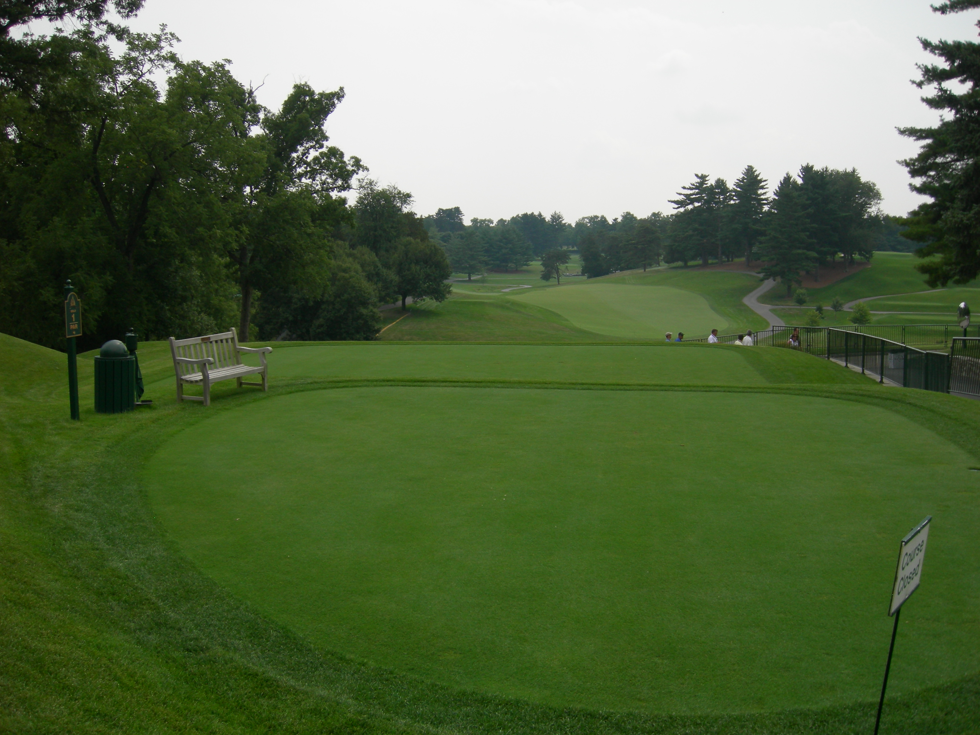 The first hole of the Congressional Country Club's Gold Course. This course was closed during the 2007 AT&T National tournament, as all play was on the Blue Course.